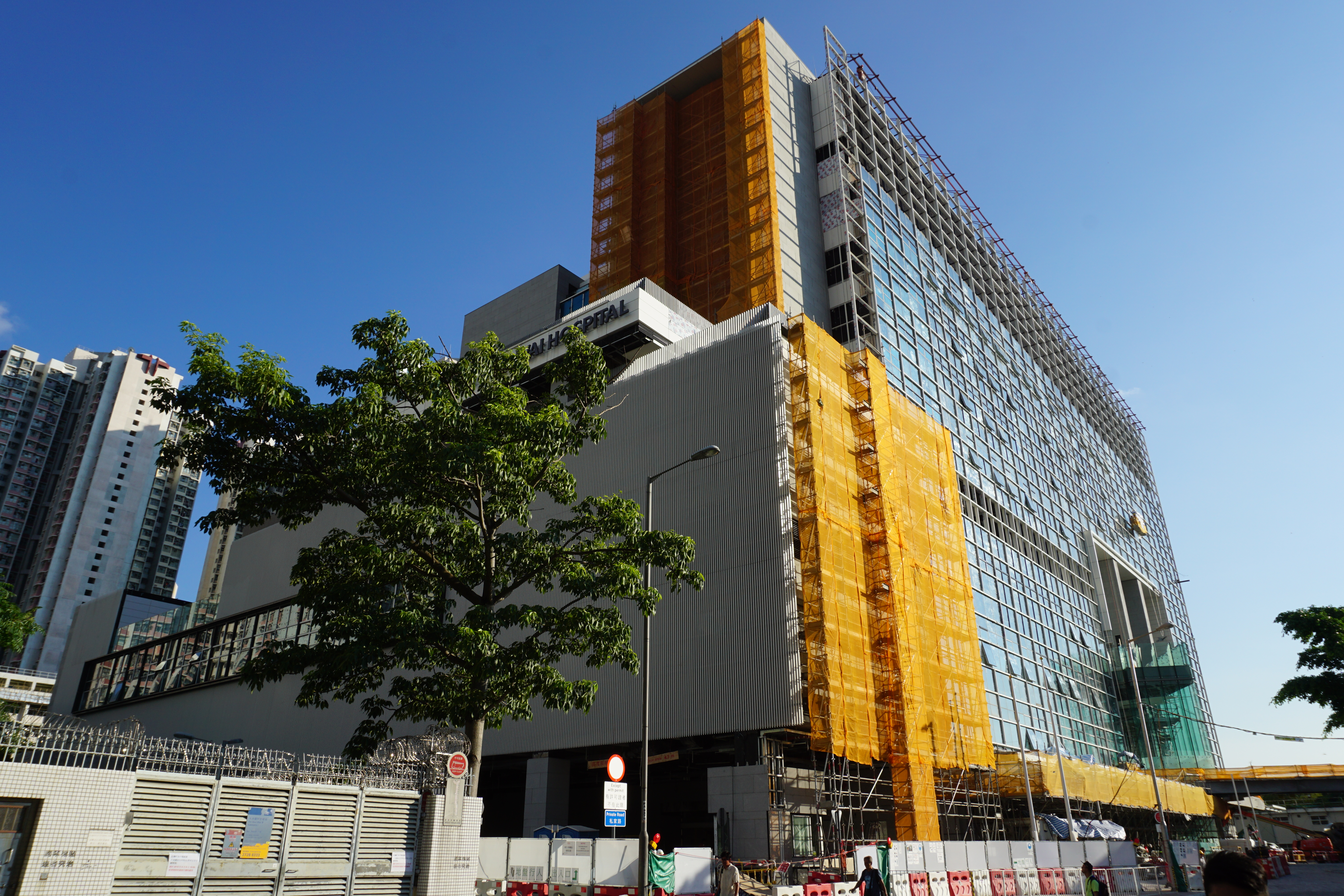 Hospital in Tin Shui Wai, Hong Kong.